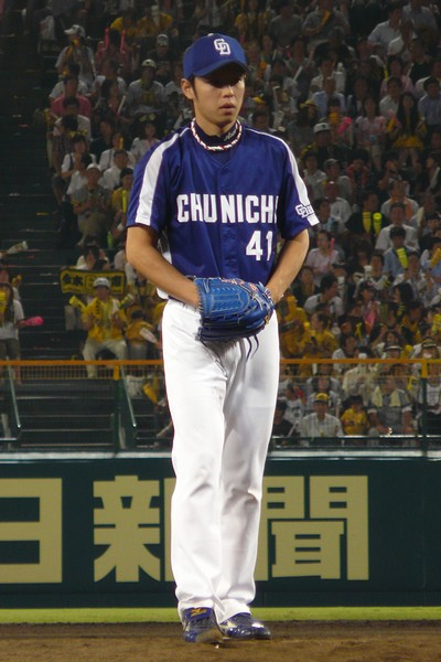 Takuya Asao, pitcher of the Chunichi Dragons, at Hanshin Koshien Stadium.